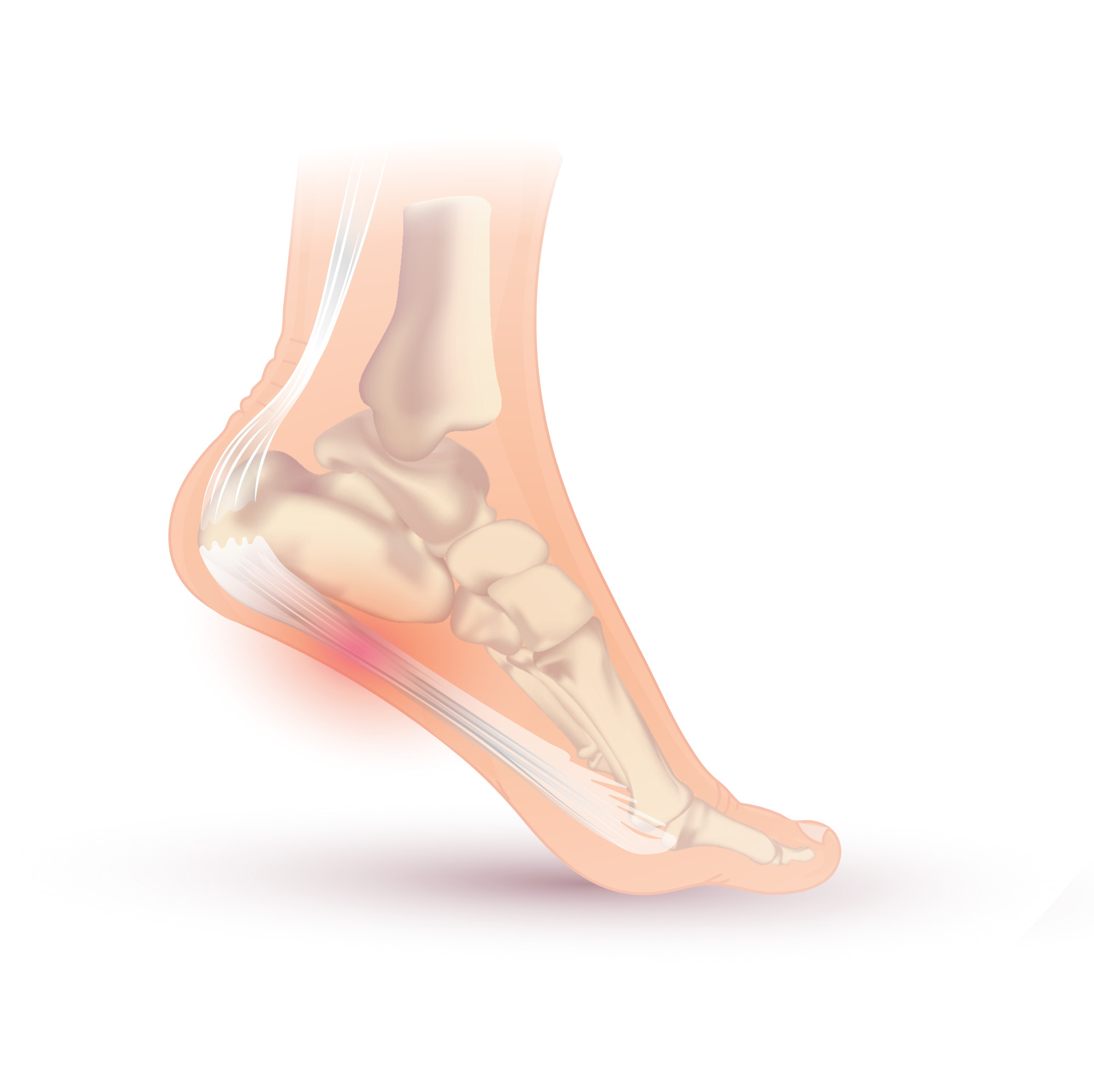 Arch tendonitis